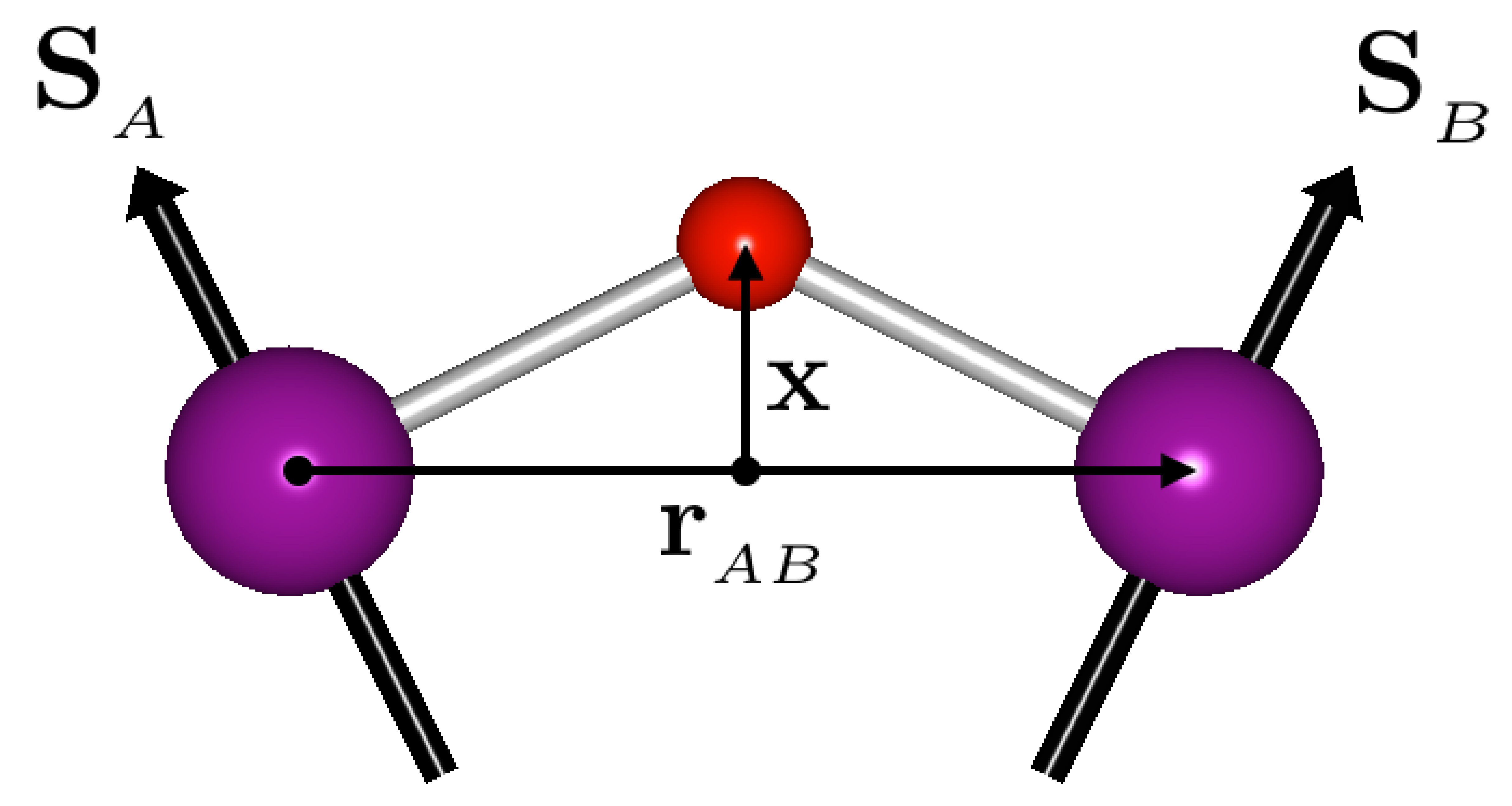 Visualization of the Dzyloshinskii Moriya antisymmetric exchange.